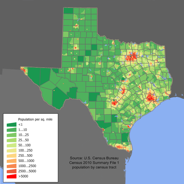 Population map of Texas, updated with 2010 census data.